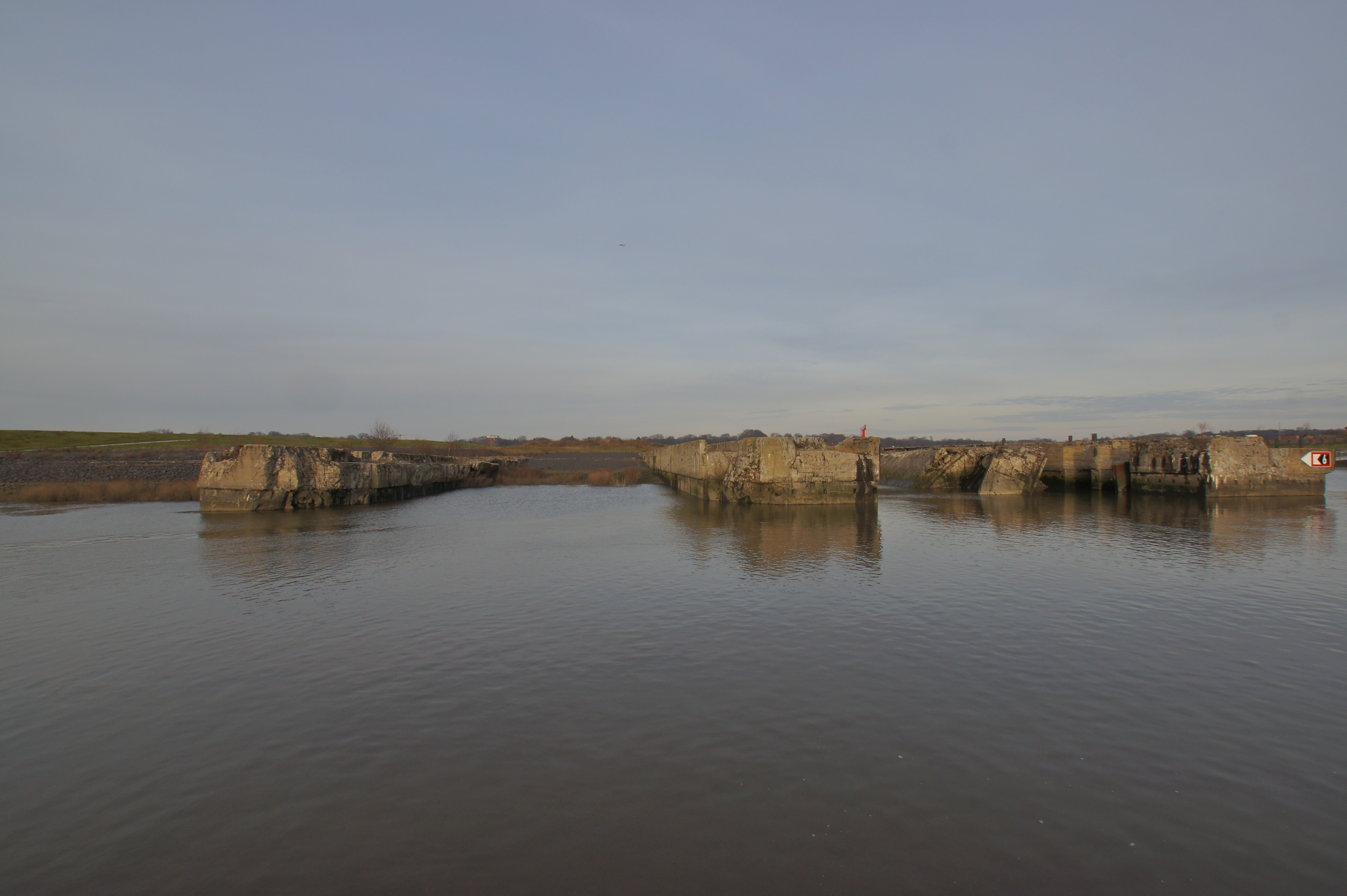 Hamburg (Finkenwerder), Germany: The Fink II bunker